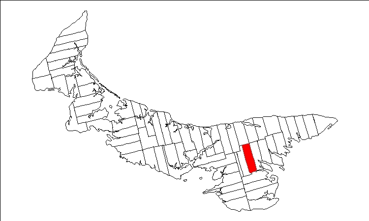 Public domain map of Prince Edward Island created by User:Plasma east with data courtesy of Geogratis, modified to show townships. Released under GFDL (self).